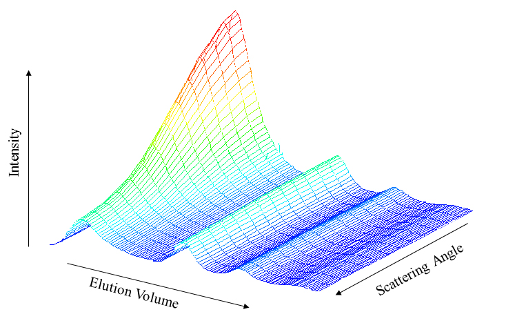 This graph shows a separated sample mix polystyrene spheres of various sizes and the light scattering intensity from each separated sample showing the angular variation based on size of the spheres.